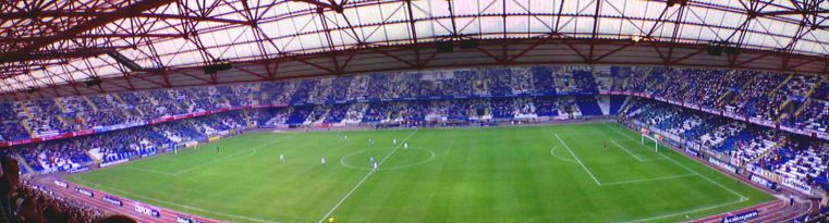 Riazor Stadium, home of Deportivo de La Coruña Camera: Benq Digital Date: August 2005